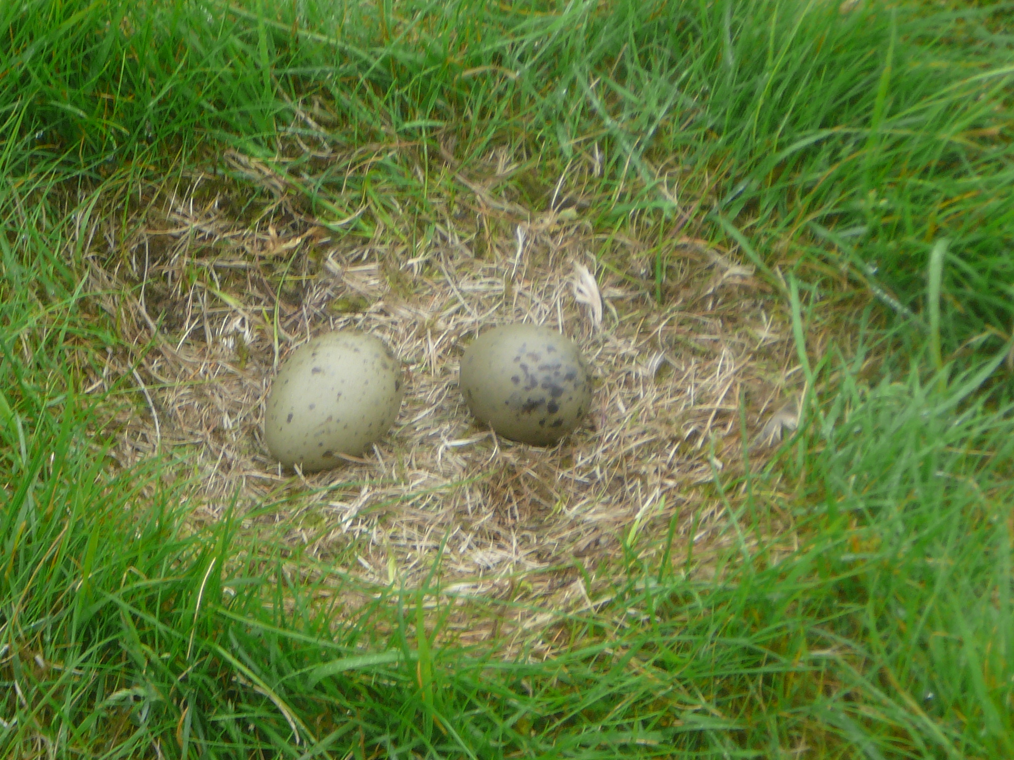 Eggs in Iceland (June)